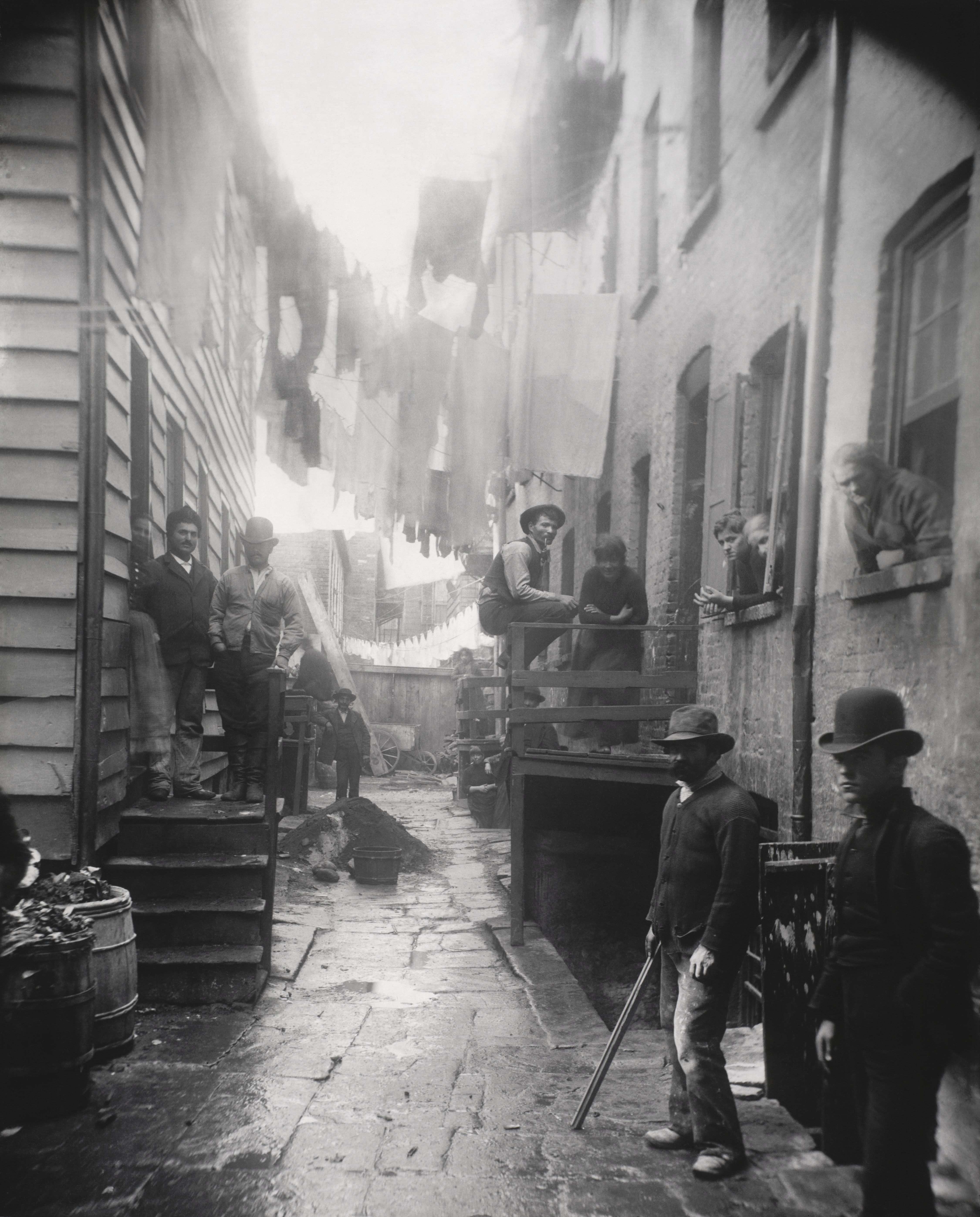 Bandits' Roost, 59 1/2 Mulberry Street. Gelatin silver print, printed 1958. Jacob August Riis